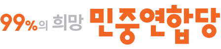 South Korea's Party, 'Popular United Party' Logo.